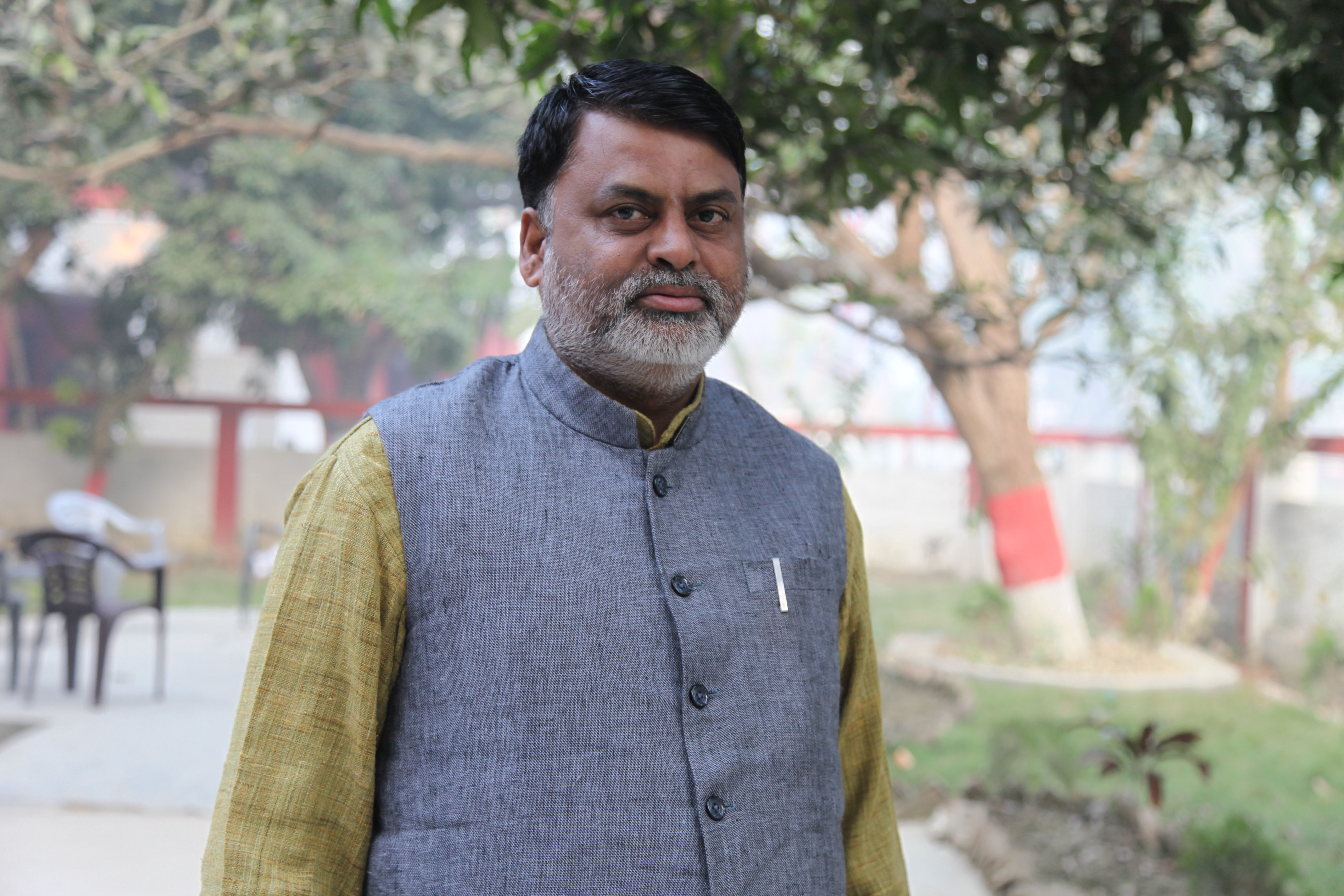 Jitendra Sonal is a member of the Province No. 2 Provincial Assembly